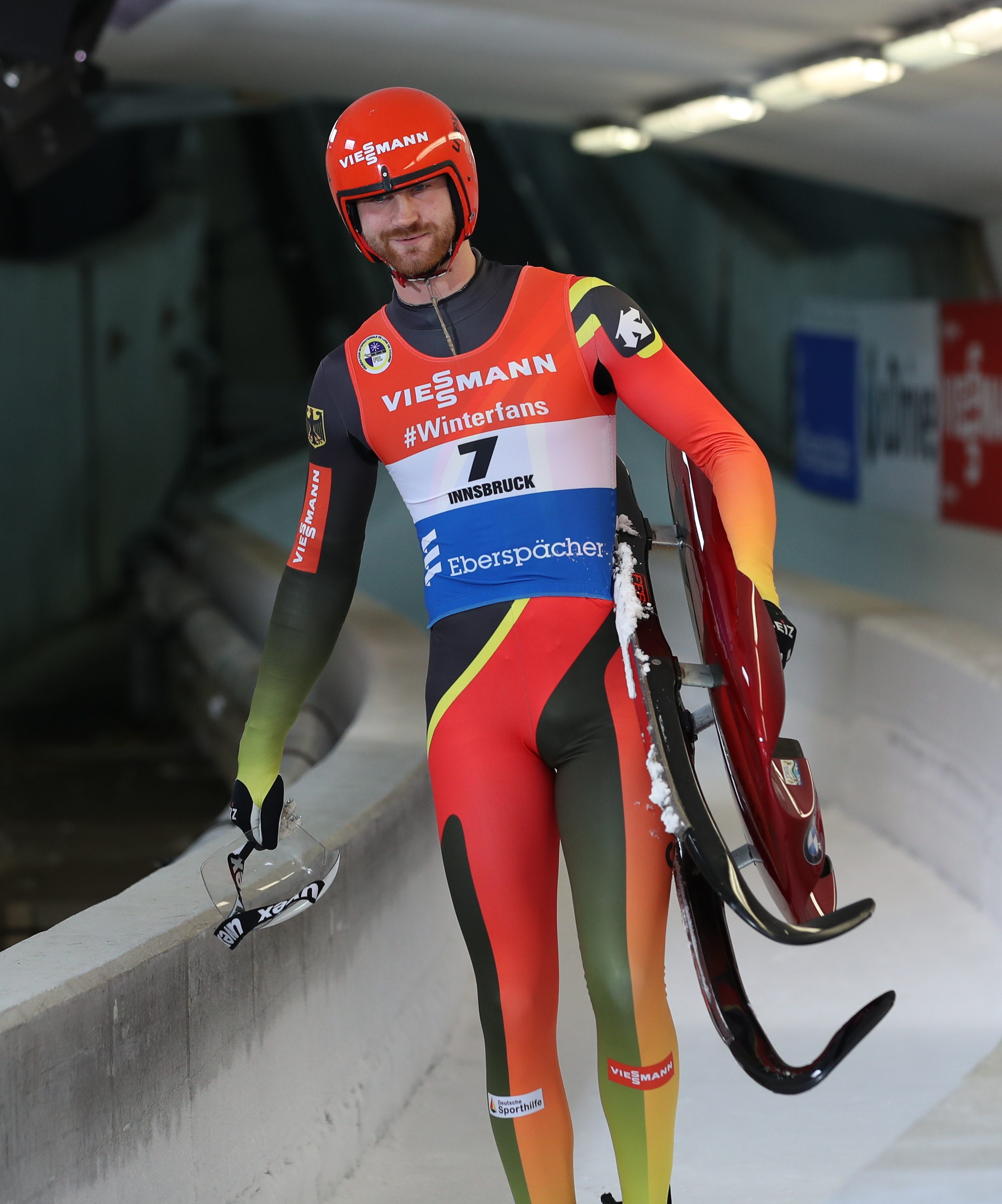 Men's World Cup race at the 2018/19 Luge World Cup in Innsbruck-Igls